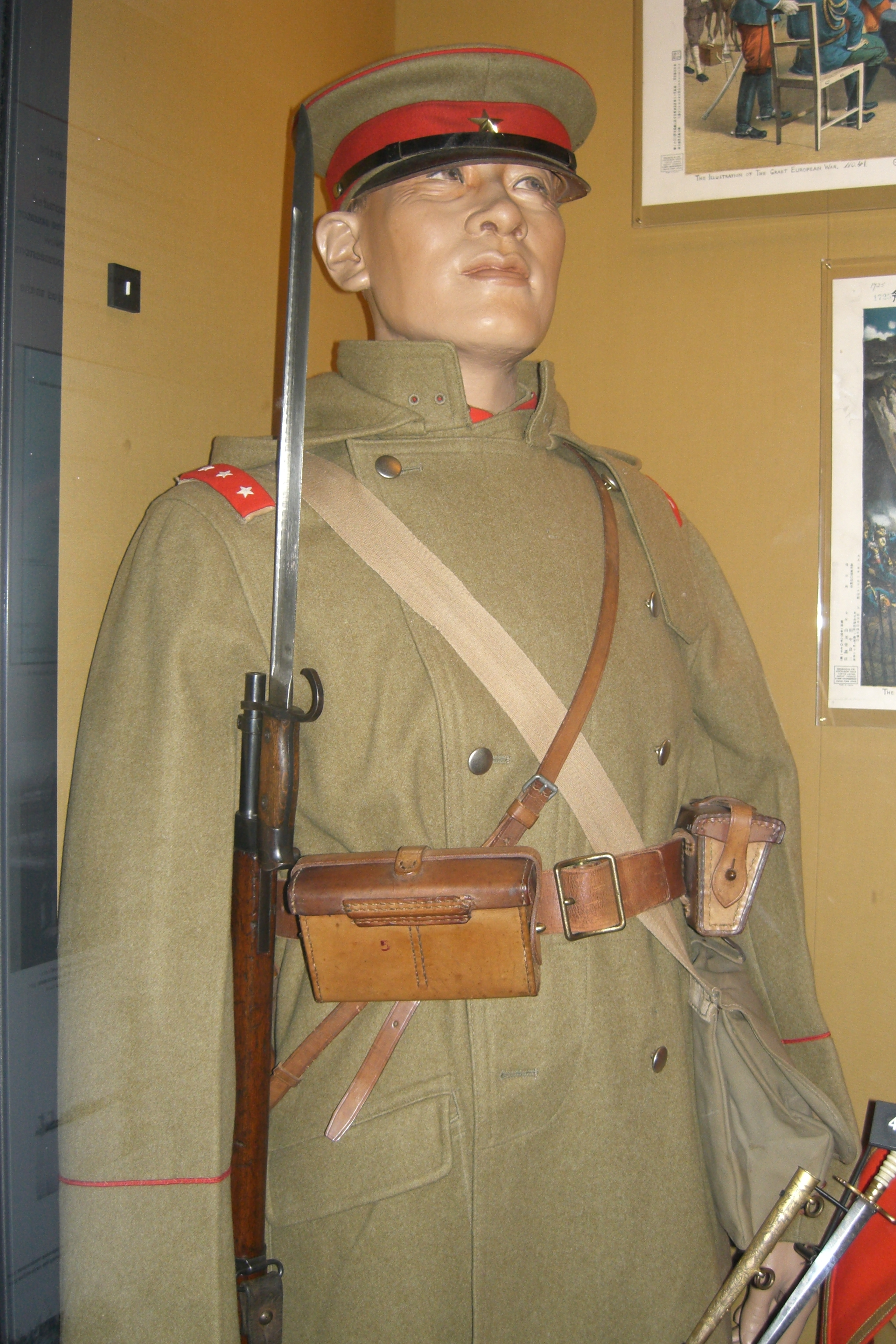 Senior private, infantry, Imperial Japanese army in field service dress as worn on the expedition to Kiaochow in 1914, armed with a 6.5mm Type 38 Arisaka rifle. Photo taken from the London Imperial War Museum.